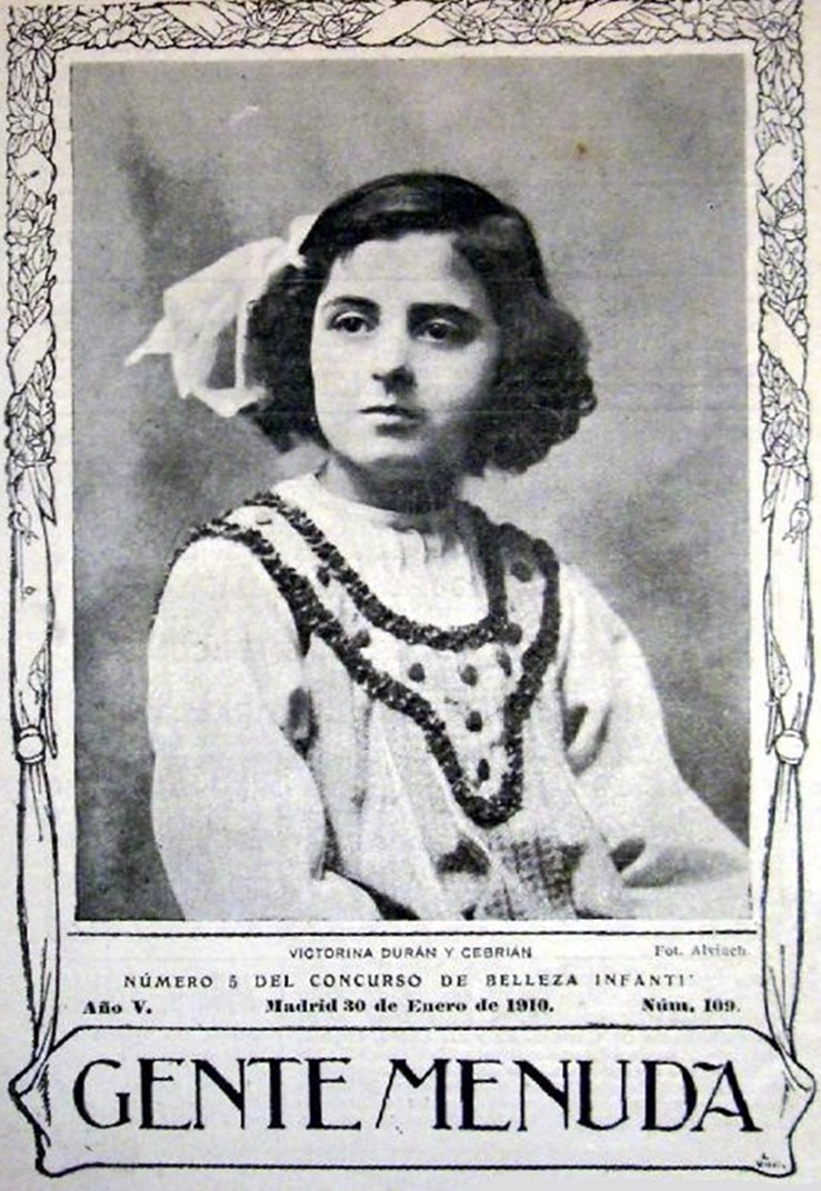 Victorina Durán (11 December 1899 – 10 December 1993) was a Spanish set and costume designer, chair of costumes and scenography at the National Conservatory,[1] and avant-garde artist associated with the surrealist movement of the 1920s and 30s. Photo by Manuel Alviach